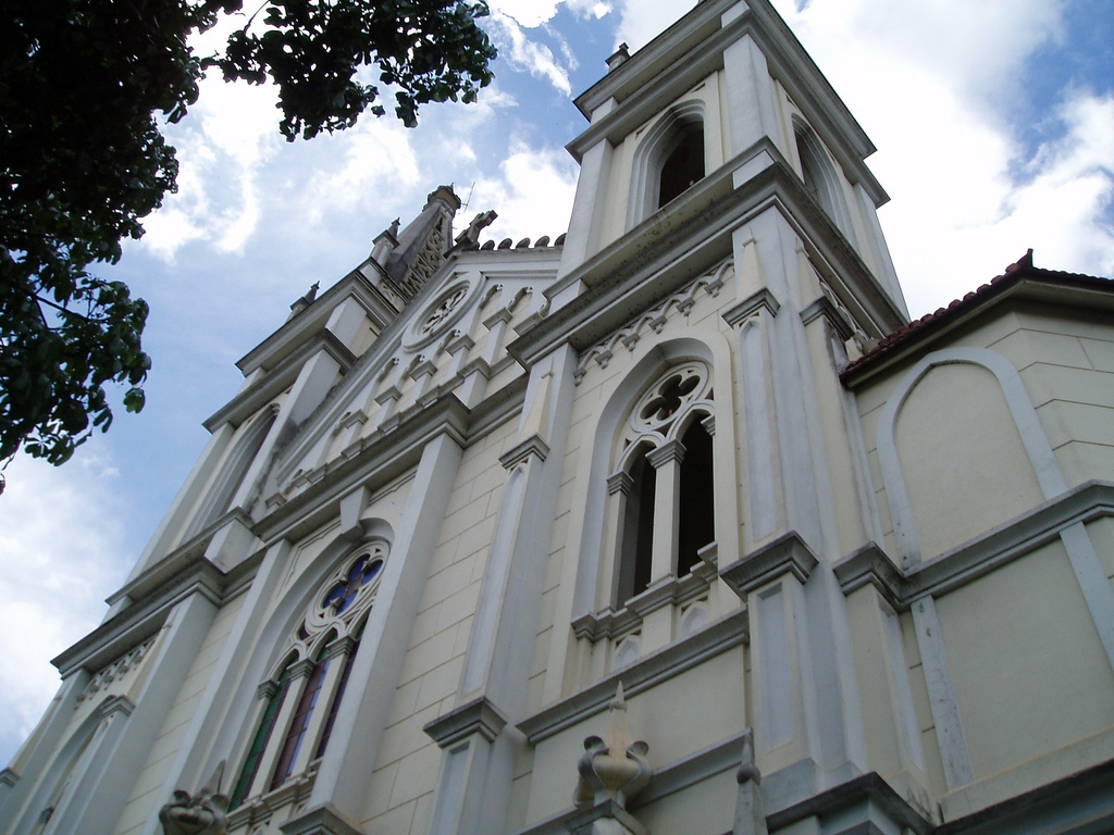 São Pedro Cathedral, in Cachoeiro de Itapemirim, Espírito Santo, Brazil.